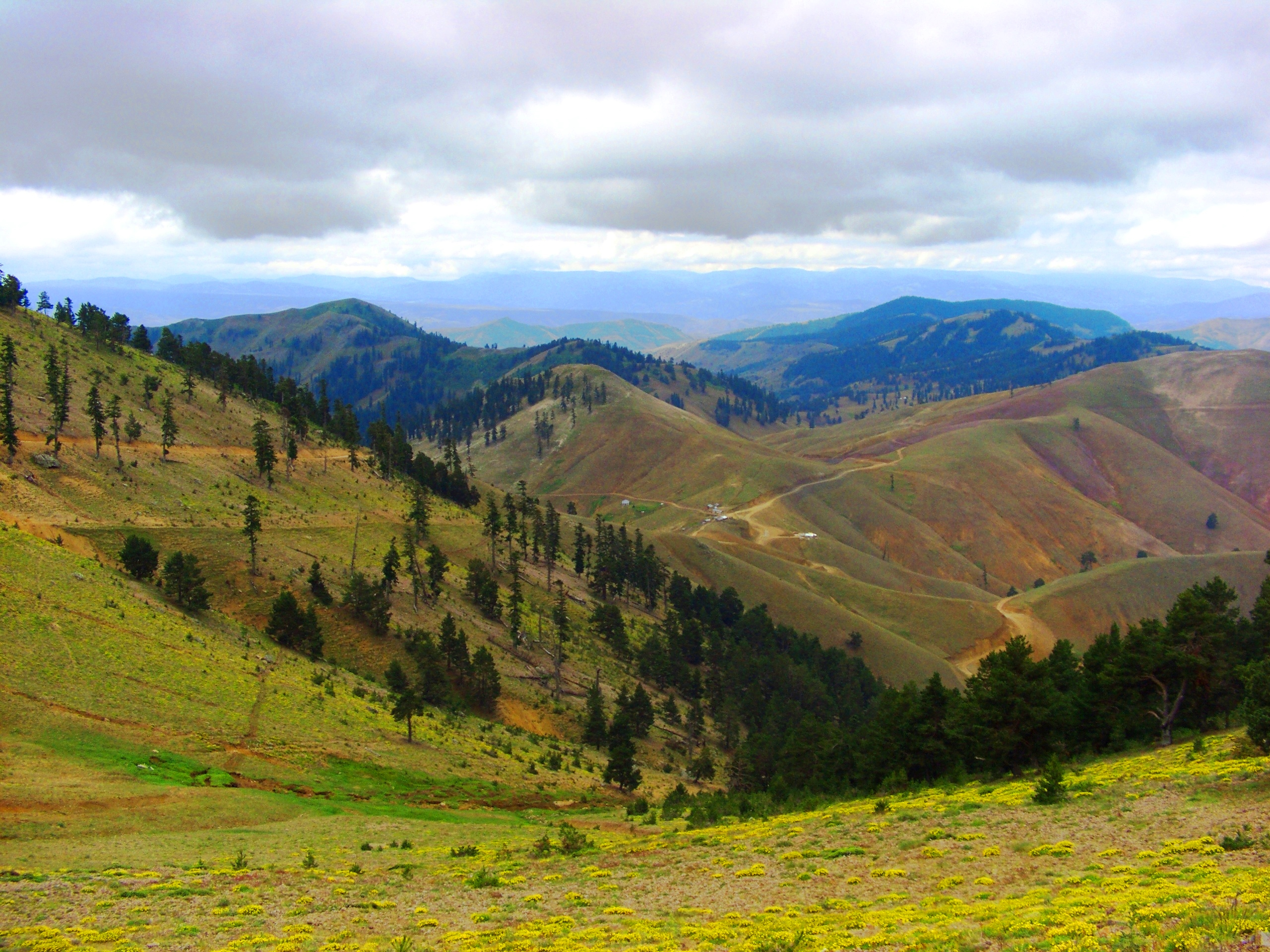 Kurtbeli (means "wolves passage" in Turkish) and pine forests. Kurtbeli is a small summer settlement site which is located in Alucra District of Giresun Province. It is a cross passage point on Giresun Mountains that binds four roads linking Torul, Espiye (2) and Alucra districts.